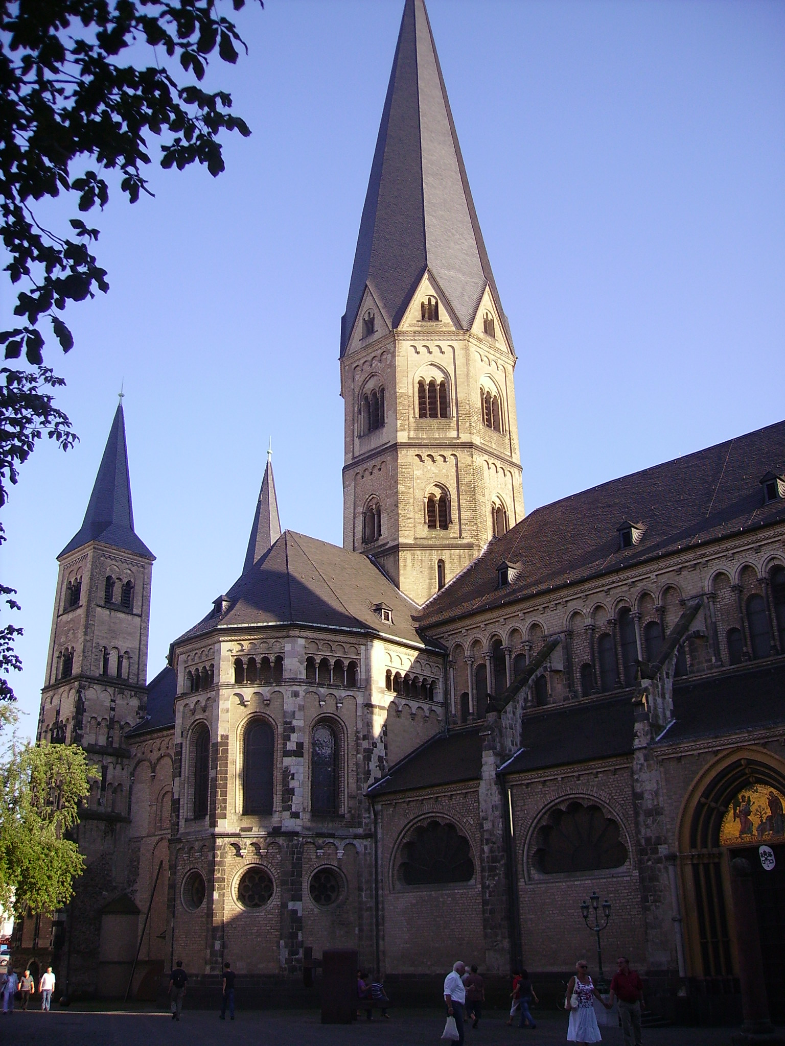 Catholic Minster Sts. Cassius & Florentius, Bonn